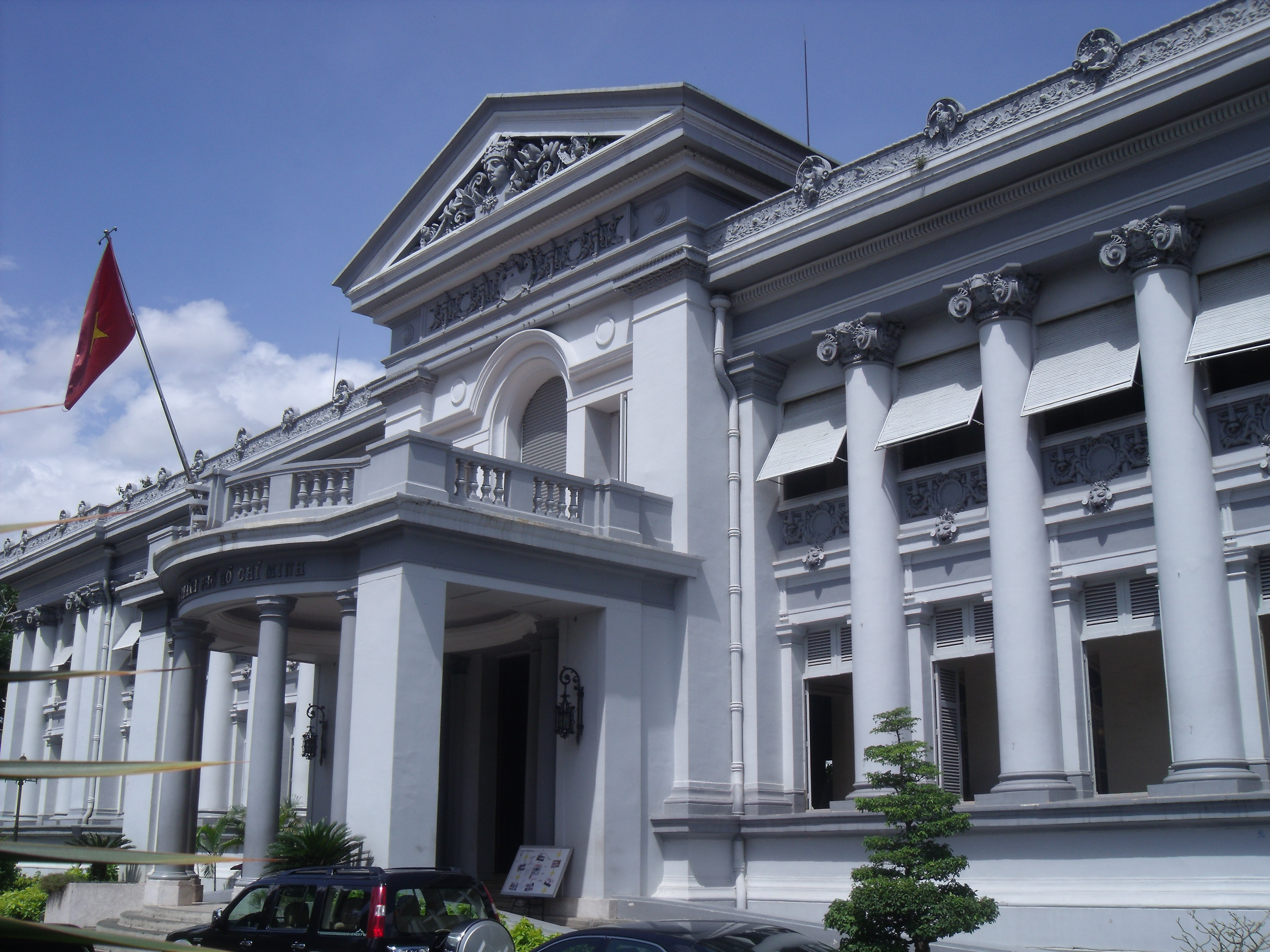 Museum of Ho Chi Minh City, 65 Lý Tự Trọng, Bến Nghé, Thành phố, Hồ Chí Minh, Ho Chi Minh City, Vietnam.